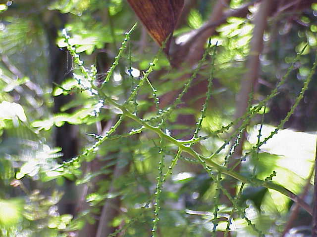 Species: Chamaedorea oblongata Family: Palmae Image No. 3